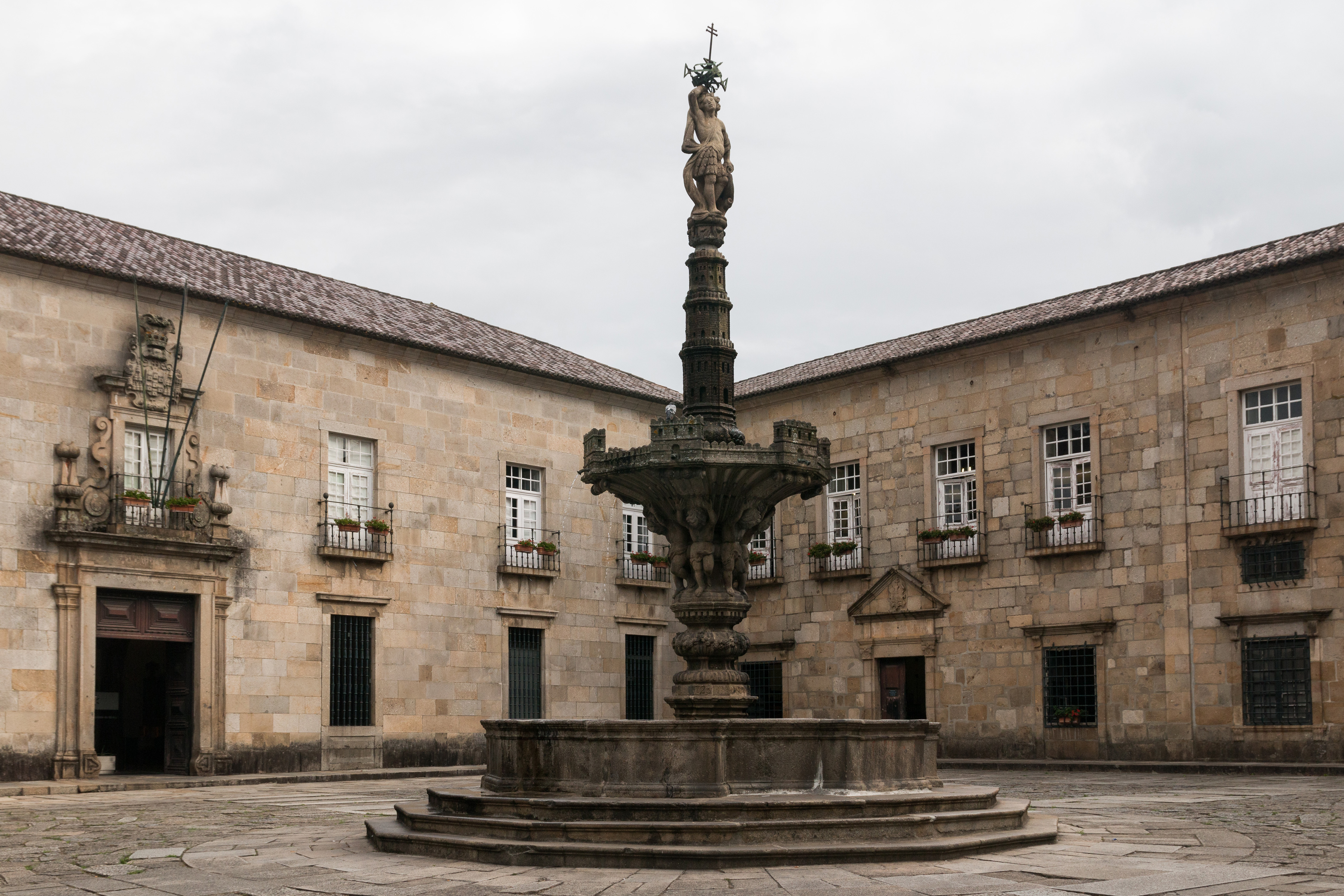 Archbishop palace of Braga.